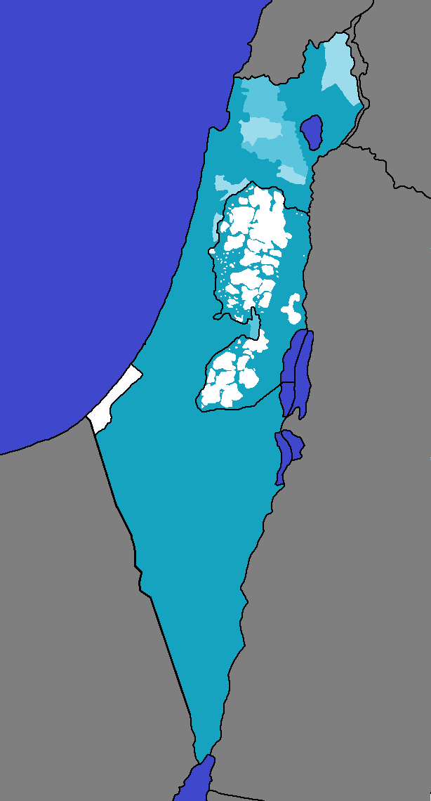 Blue - Hebrew is the majority. (+50%) Light Blue - Hebrew is the significant minority, (50%) Lighter Blue - Arabic is the significant majority (+75%) White - Hebrew is not used at all.